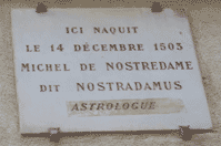 Plaque outside the home of Nostradamus in St Remy, France, giving details of his birth: 14 December 1503 (Julian Calendar)